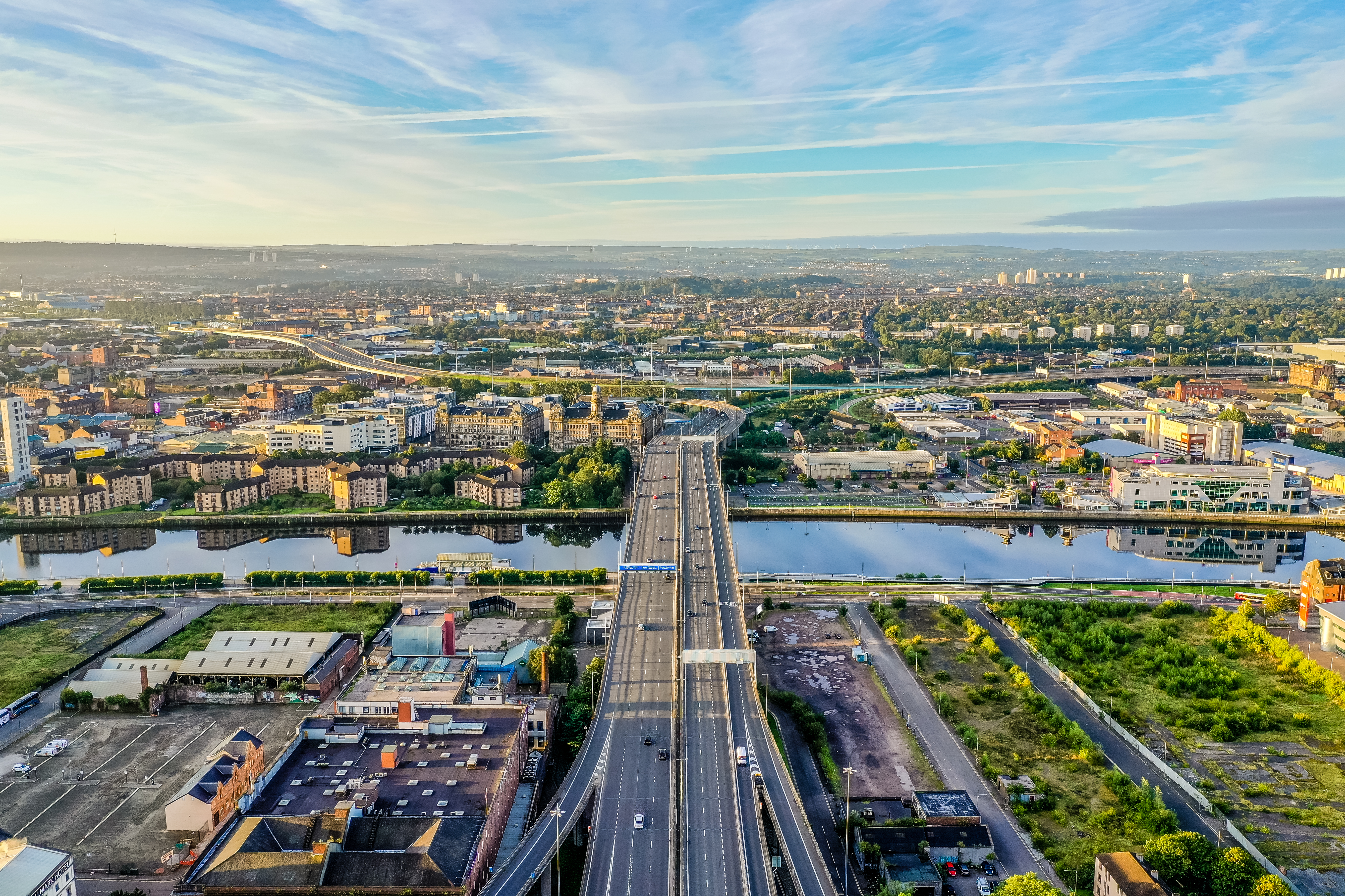 The Kingston Bridge crossing the River Clyde in Glasgow City Centre.